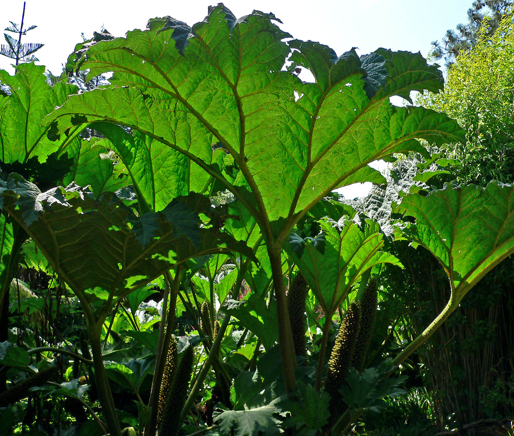 Photo of Gunnera tinctoria at the San Francisco Botanical Garden